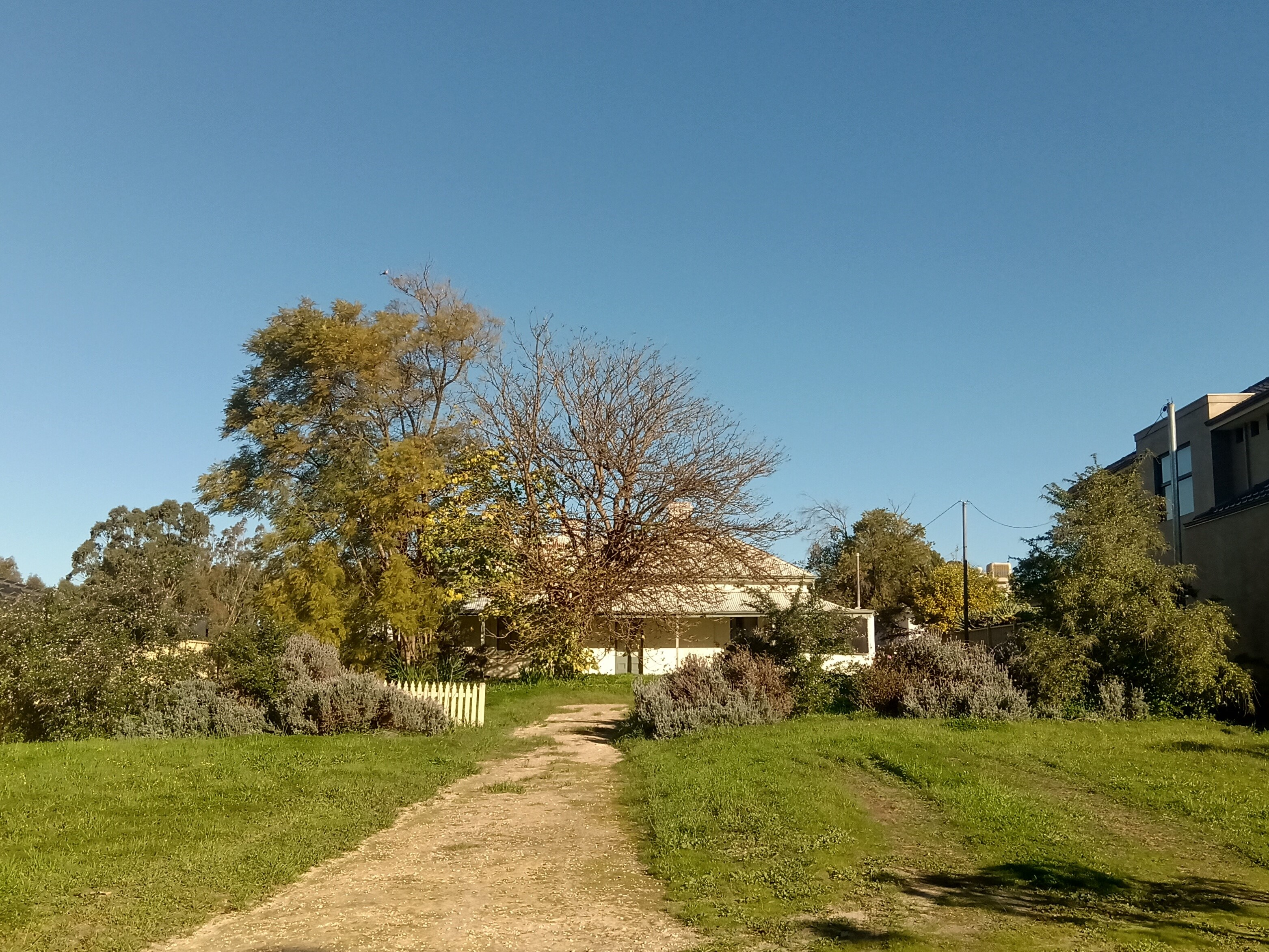 Grasemere Homestead (1886) is single storey, rendered brick and corrugated iron six room hoemstead built in the Victorian Georgian style. It has a central passage with verandahs all around set in rural surroundings adjacent to Bull Creek. Evidence of the original orchard and gardens remain.